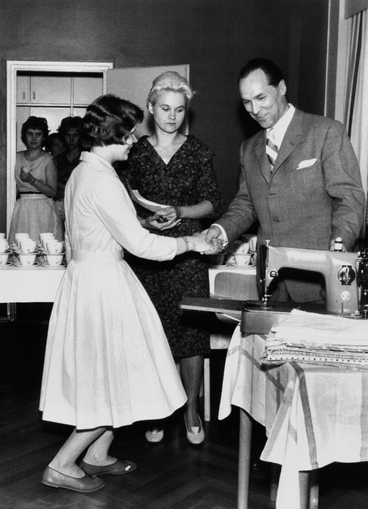 Photograph of the editor Sirkka Vesa-Kantele (1928–) and executive Lauri Jäntti (1909–2006) giving a prize to the winner (left) of a girls’ style contest.